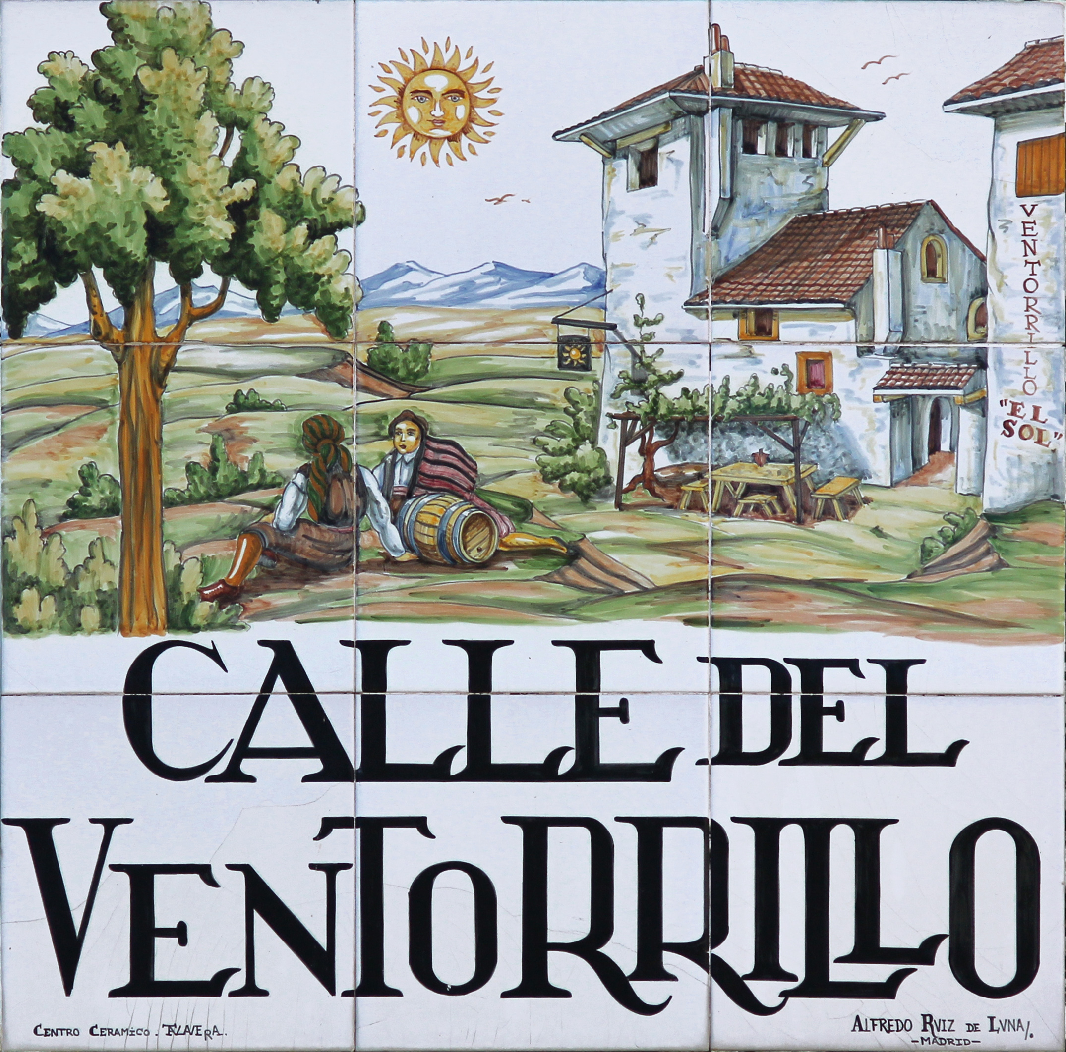 Sign of Calle del Ventorrillo (street) in Madrid (Spain).